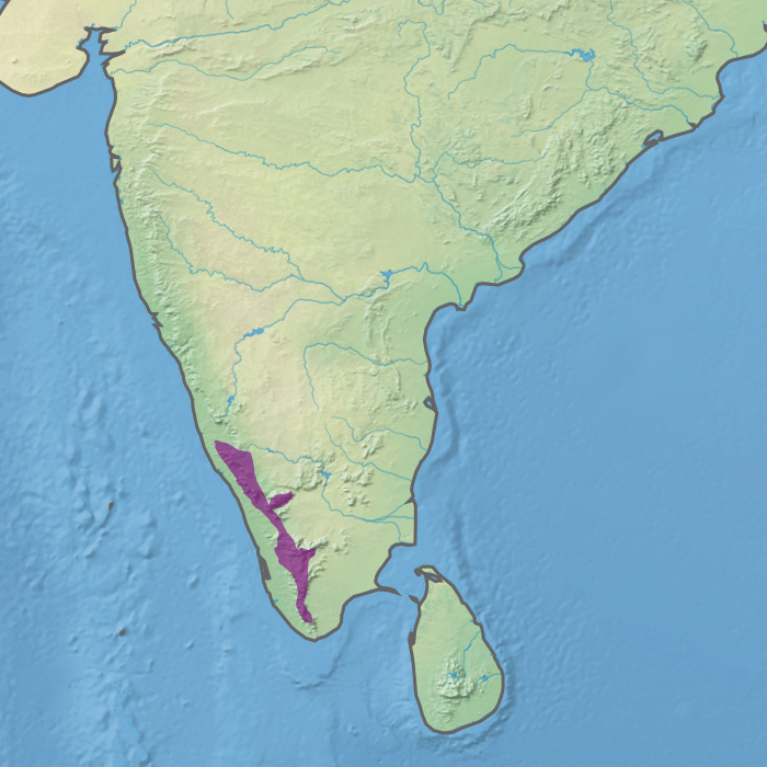 Ecoregion IM0151 - South Western Ghats montane rain forests (in purple)